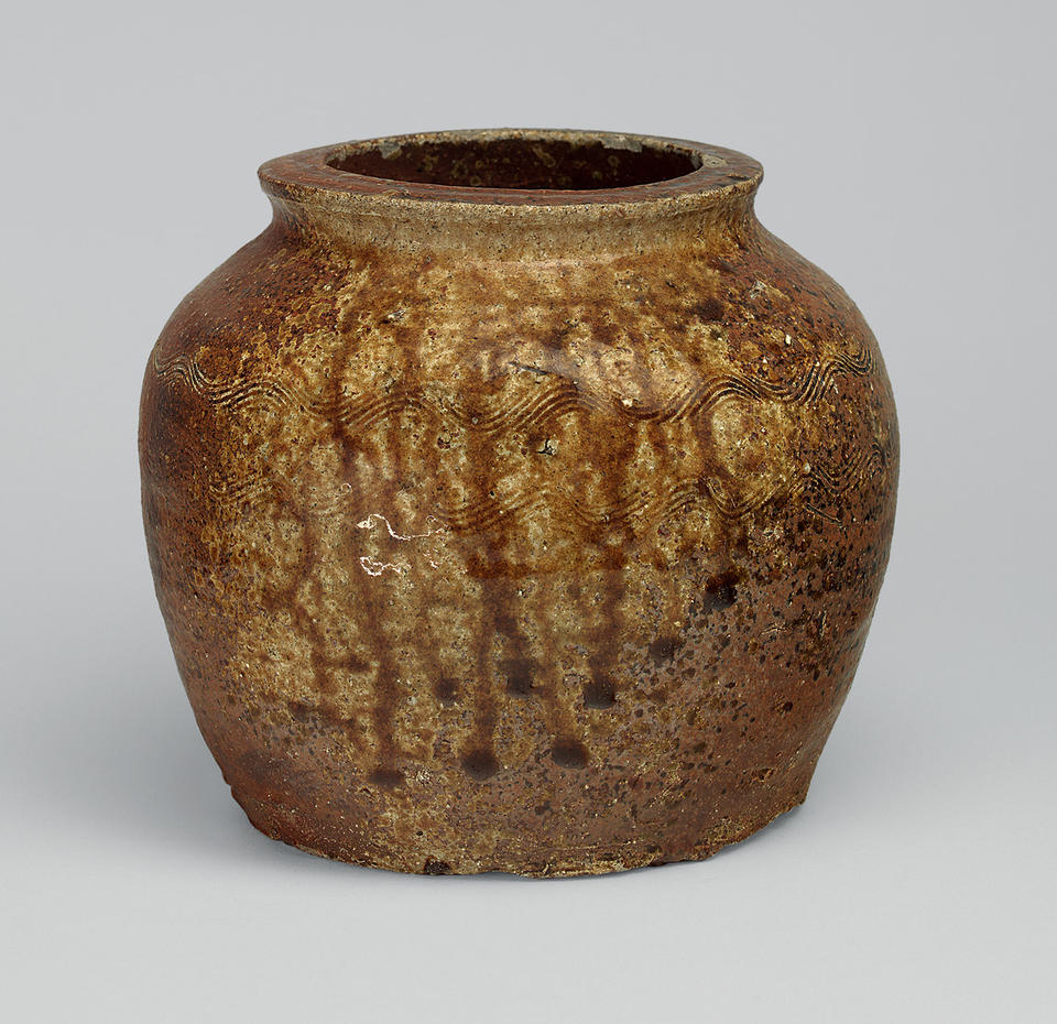 Japan; Jar; Ceramics